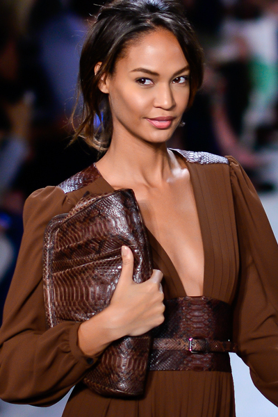 Joan Smalls walks the runway at the Michael Kors Spring/Summer 2014 show at New York Fashion Week, September 2013.